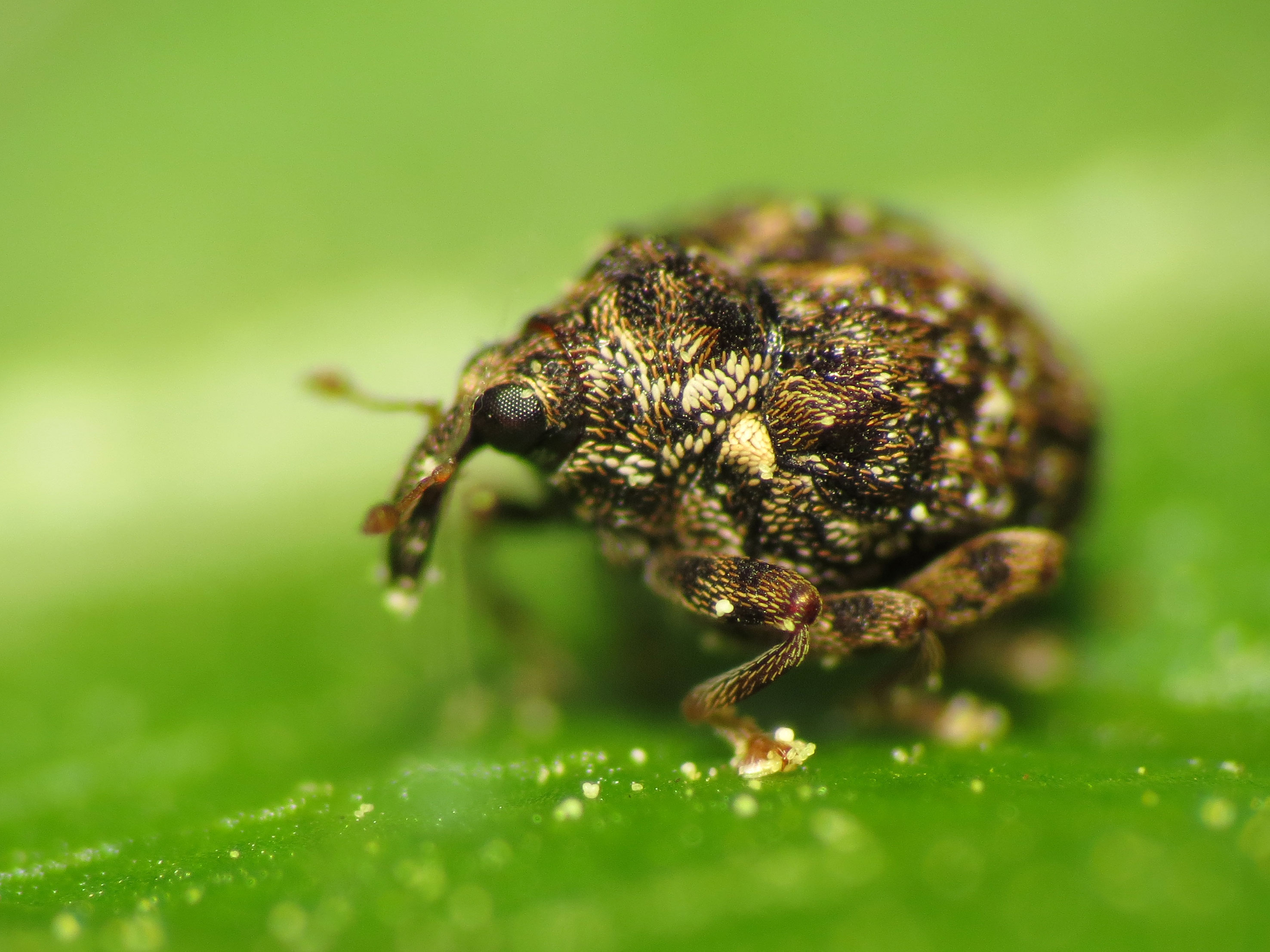 Orchestomerus sp. Rock Creek Park, Washington, DC, USA. 3 May 2014.